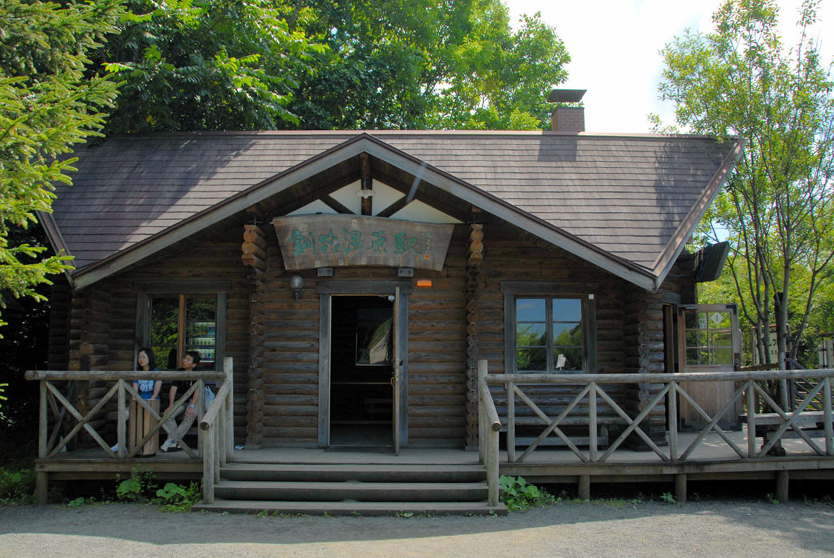 JR Hokkaido Hosooka Station